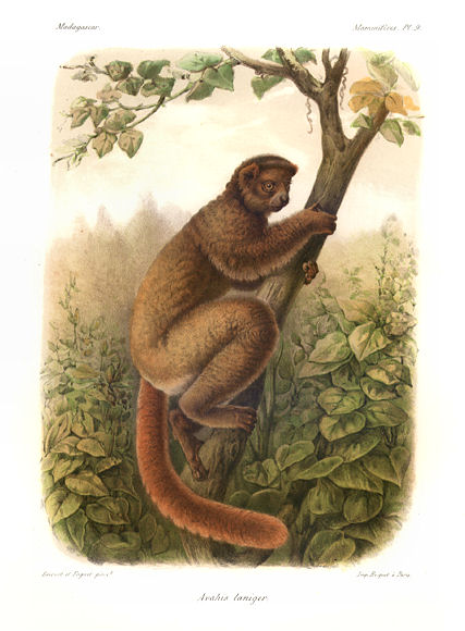 Avahis laniger (Gmelin), Eastern variety, killed with baby off Antongil (E coast of Madagascar)